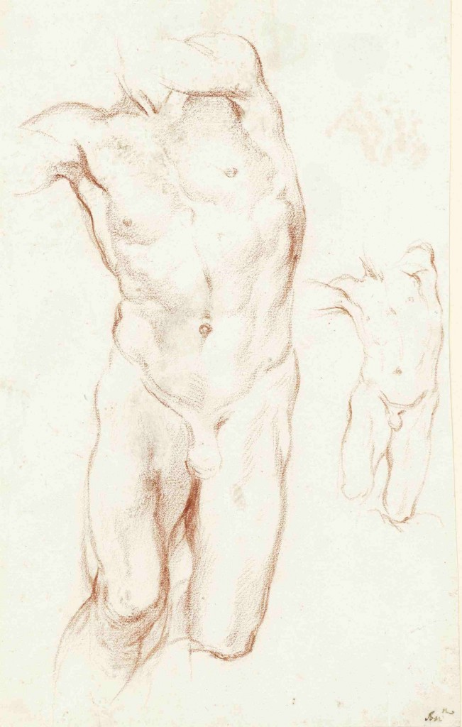 Studies for the statue of Daniel in the Chigi Chapel (Rome) by Gian Lorenzo Bernini, c. 1655, red chalk (37.8 x 23.8 cm). Museum der Bildenden Künste, Leipzig